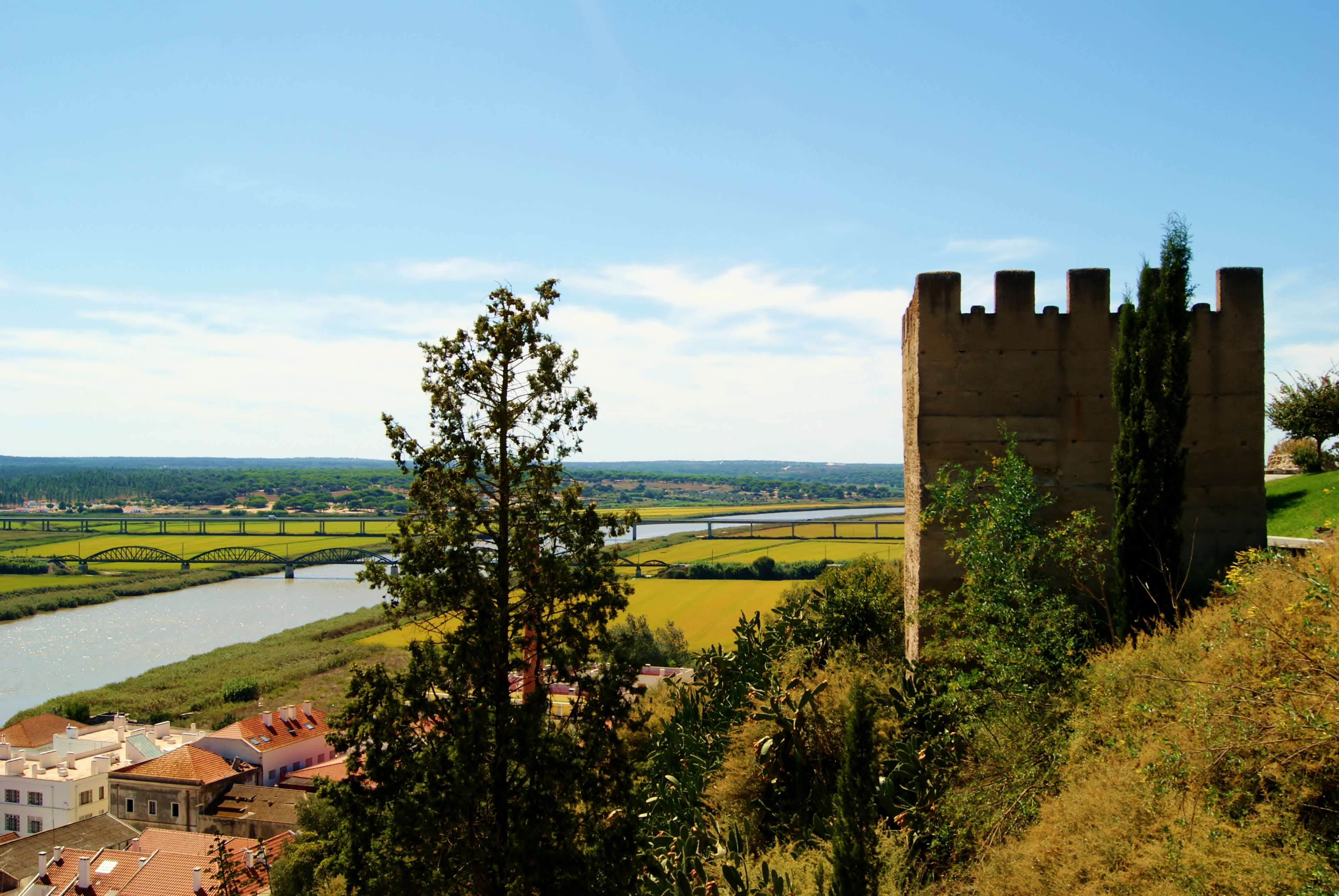 This file was uploaded for Wiki Loves Monuments in Portugal with the unique identifier 70159.